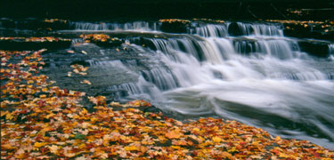 tjall falls in Cuyahoga Valley National Park, Ohio